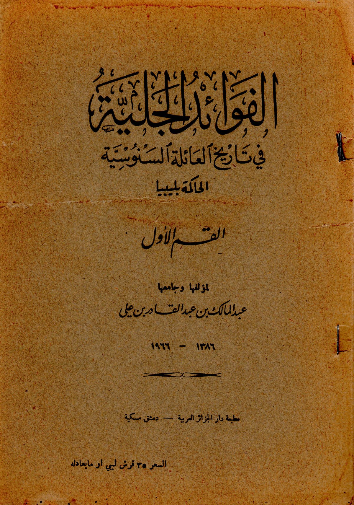 Cover of an Old Book